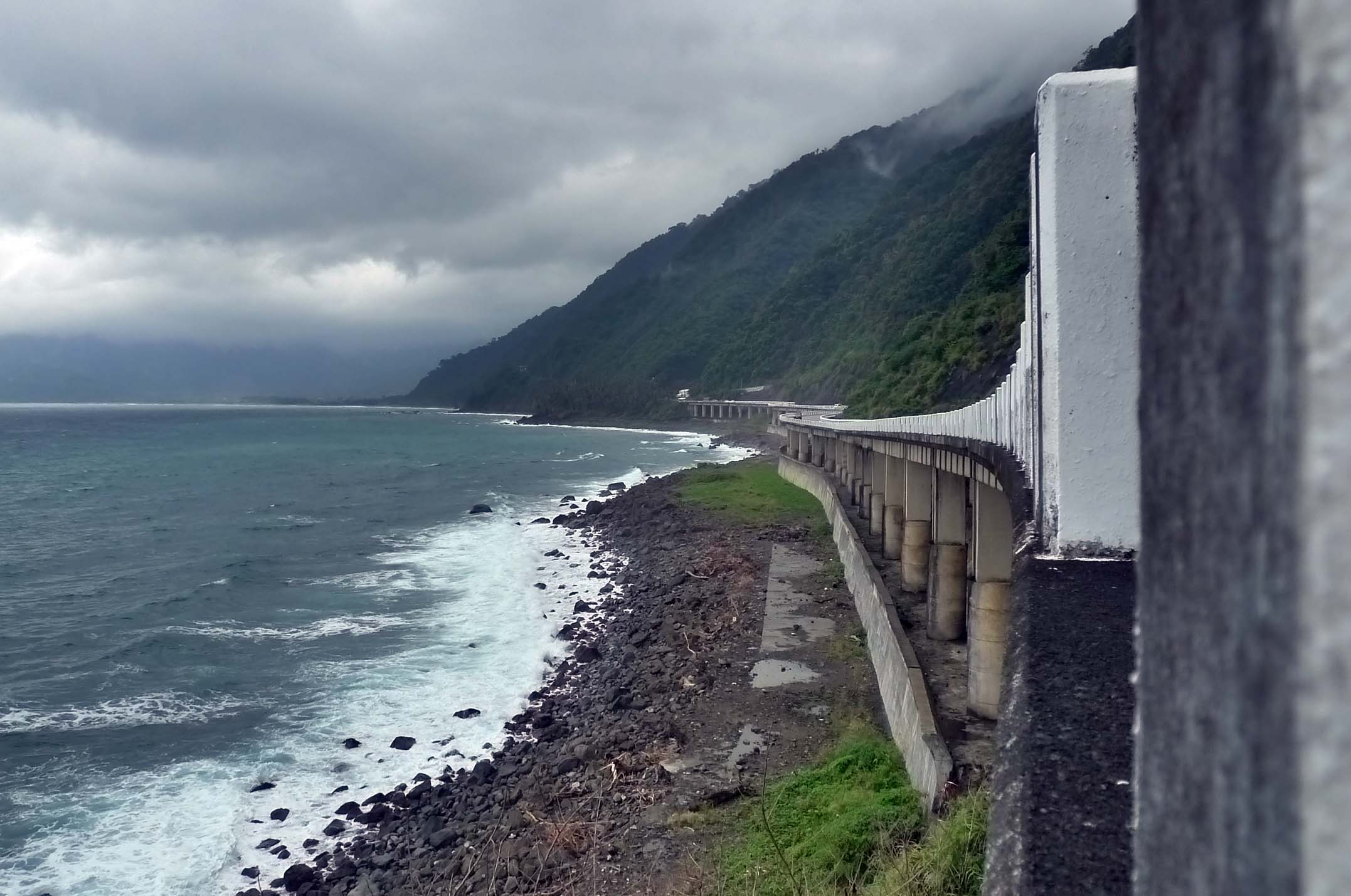 This is a photo dated April 2012 of Patapat Viaduct.